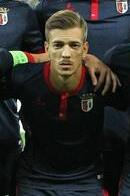 SHAKHTAR DONETSK VS. SPORTING BRAGA 2 - 0